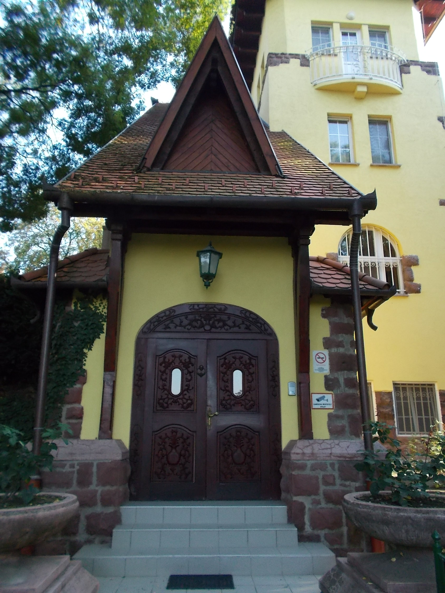 Art Nouveau mansion remodelled to four star hotel. Listed ID 3302. Built in 1926 by Pál Vágó. First owner Imre Fried (local magnat). - Malom Street, Simontornya, Tolna County, Hungary.